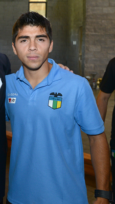 Santiago Lizana, chilean footballer